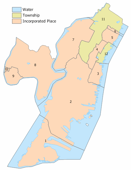 See below.